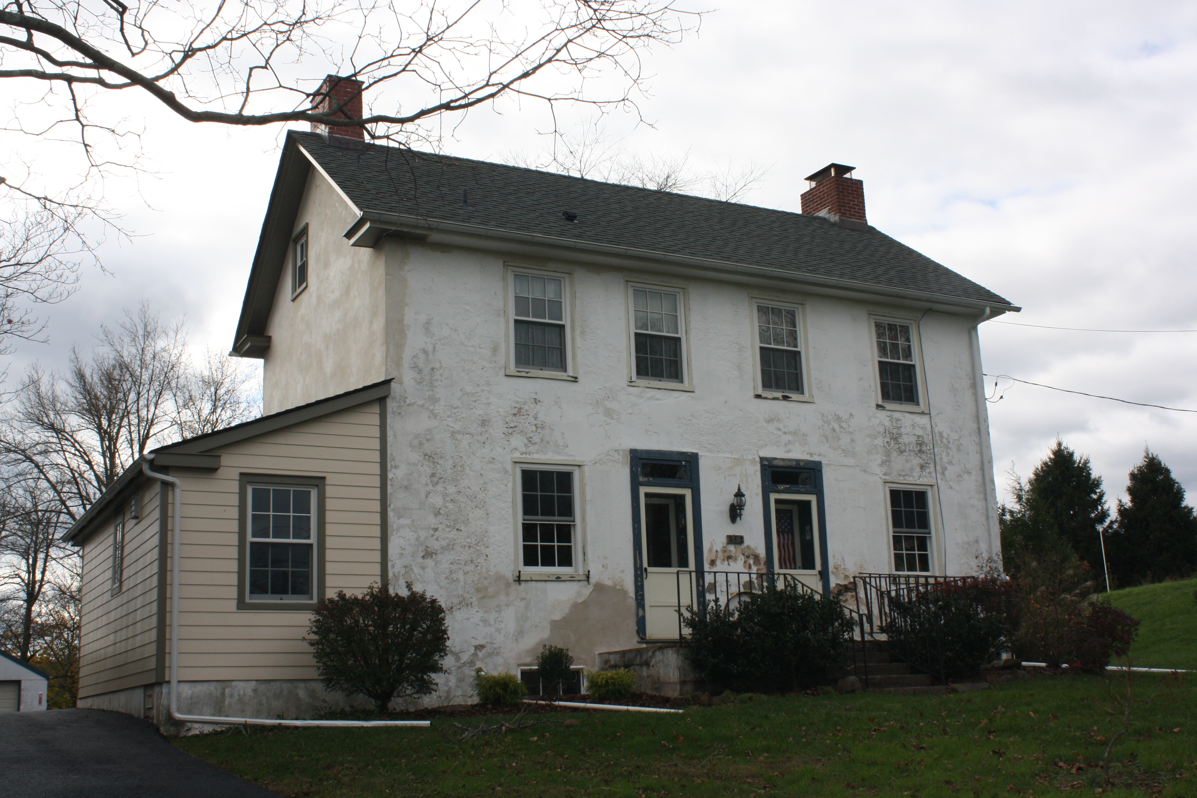 Buckmanville Historic District, a national historic district located at Buckmanville, Upper Makefield Township, Bucks County, Pennsylvania. Residence on Street Rd. Object location40° 18′ 51″ N, 74° 58′ 33″ W